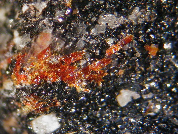 Asisite (Picture size 4 mm) Fundort: Kombat Mine, Kombat, Namibia. Orange asisite in hausmannite. Collection and foto Thomas Witzke.